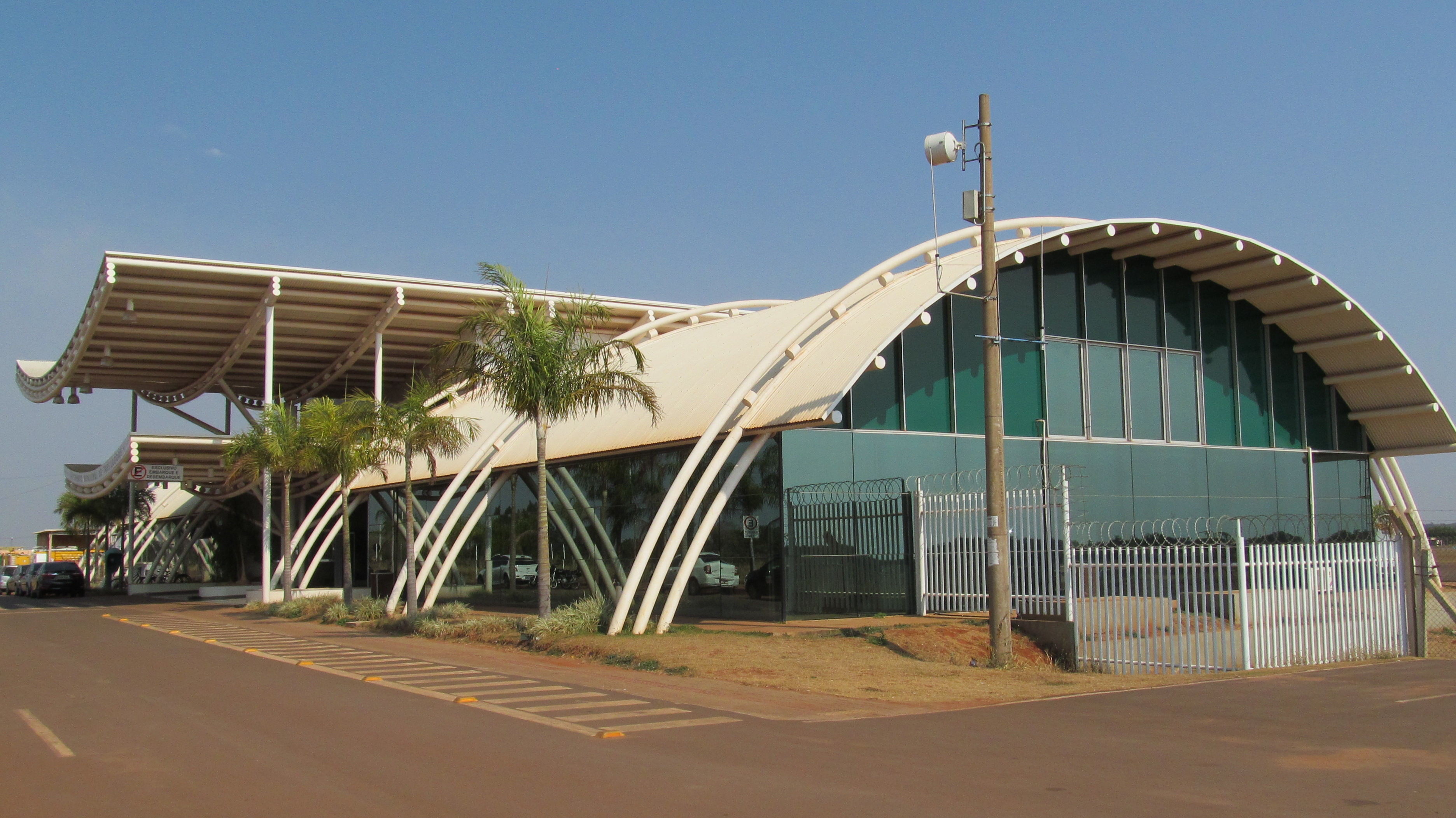 Três Lagoas Airport (TJL), Mato Grosso do Sul, Brazil